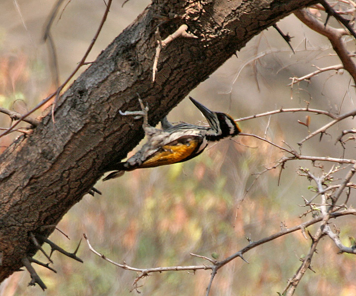 White-naped Woodpecker Chrysocolaptes festivus in Mahavir Harina Vanasthali National Park, Hyderabad, India.